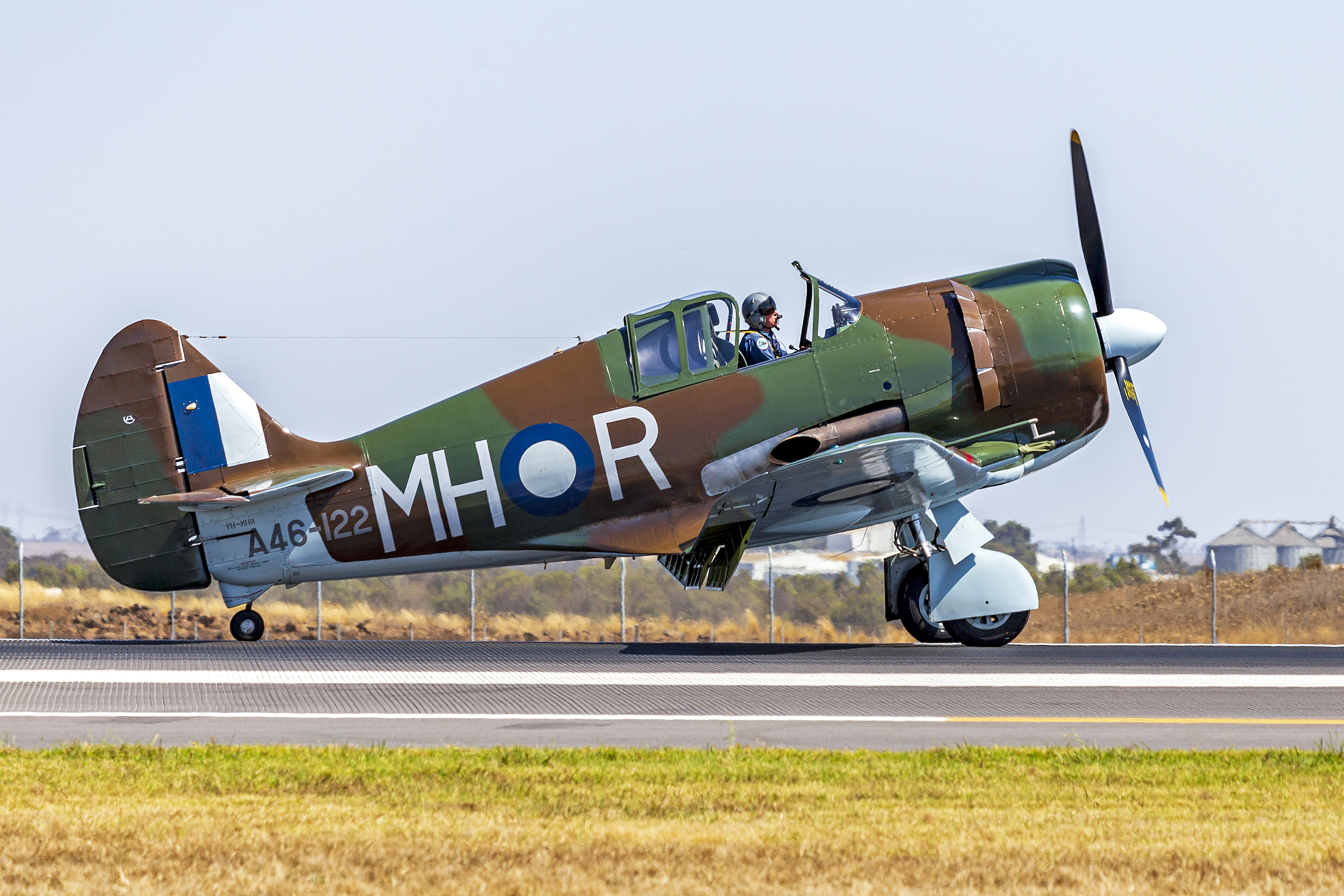 Temora Aviation Museum (VH-MHR) Commonwealth Aircraft Corporation CA-13 Boomerang taxiing at the 2019 Australian International Airshow